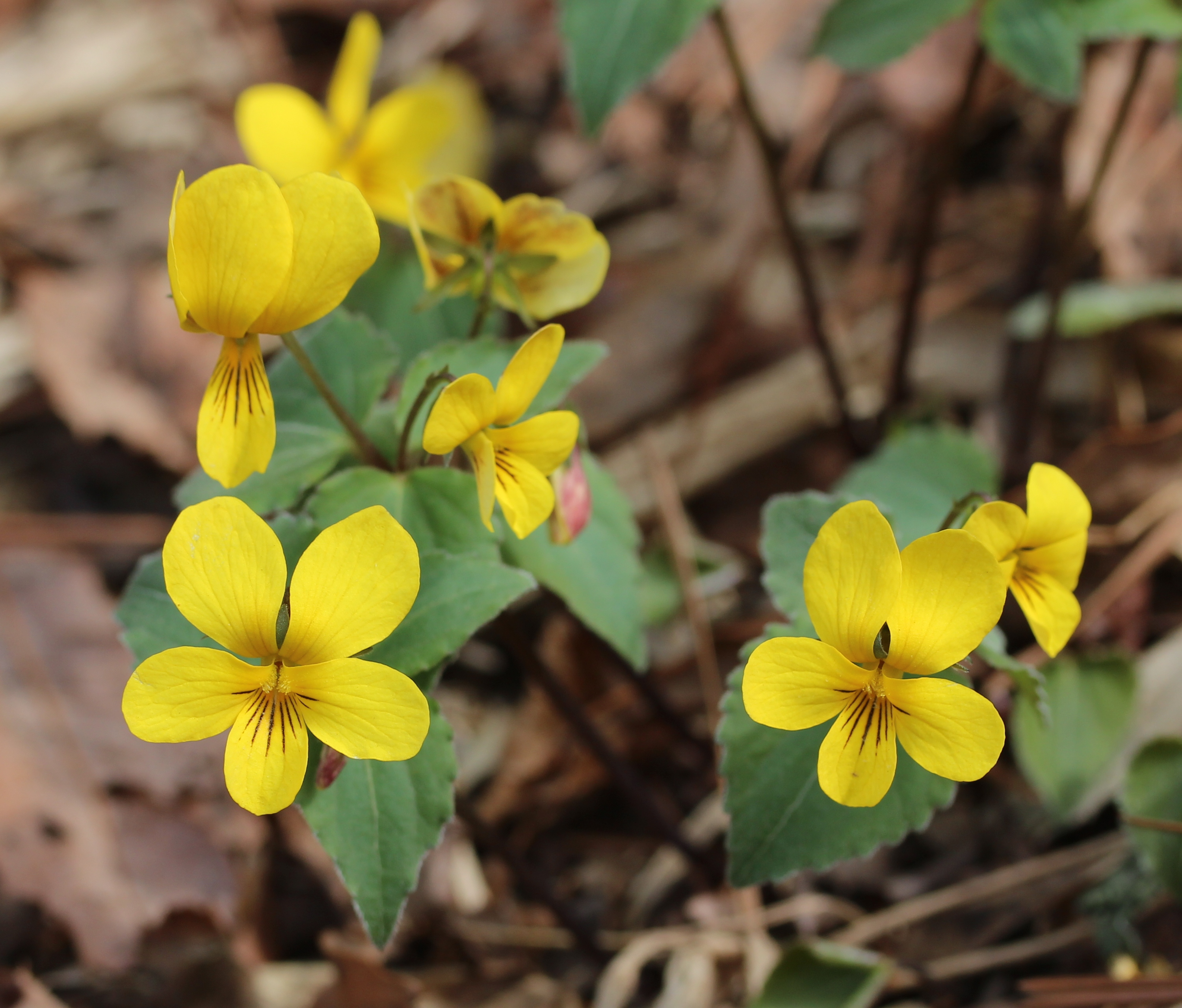 Viola orientalis in Yumihari Mountains, Toyahashi, Aichi Prefecture, Japan.